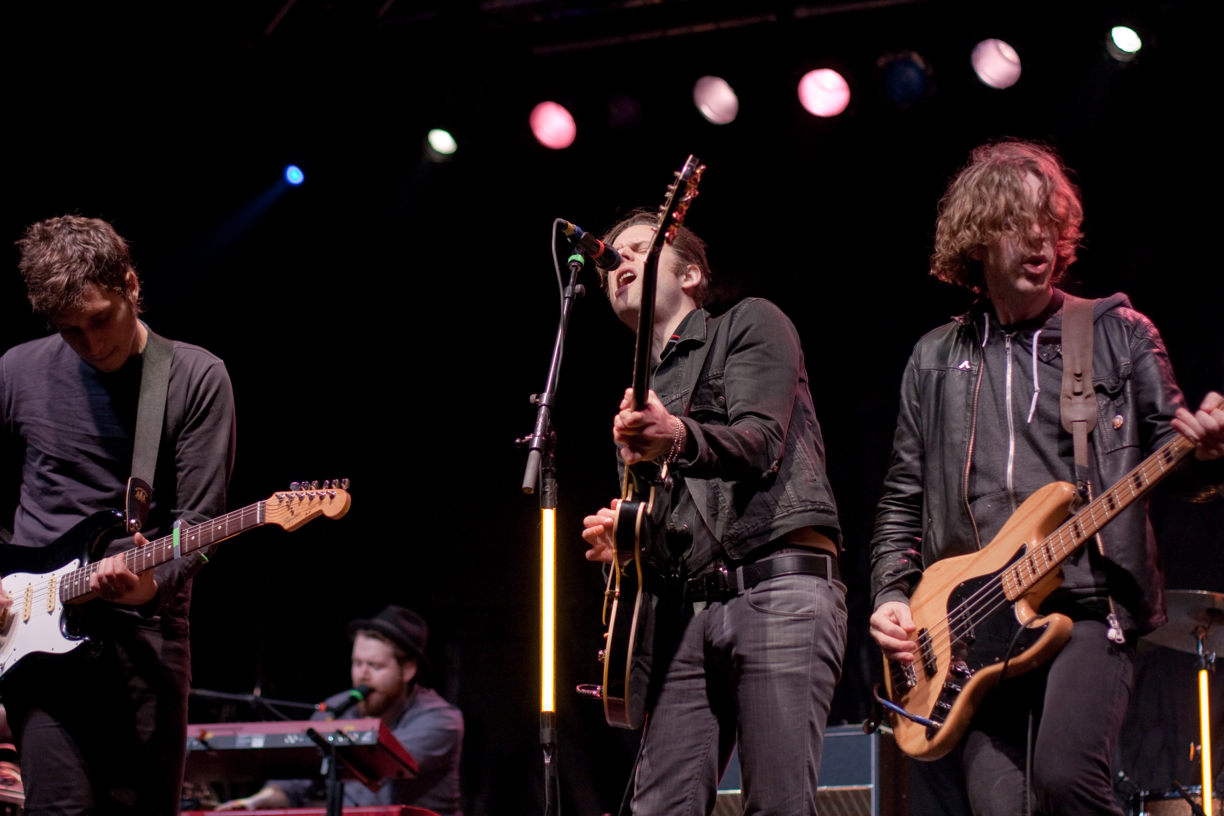 The Stills performing during a free concert on February 7th, 2009, in Toronto, Ontario.